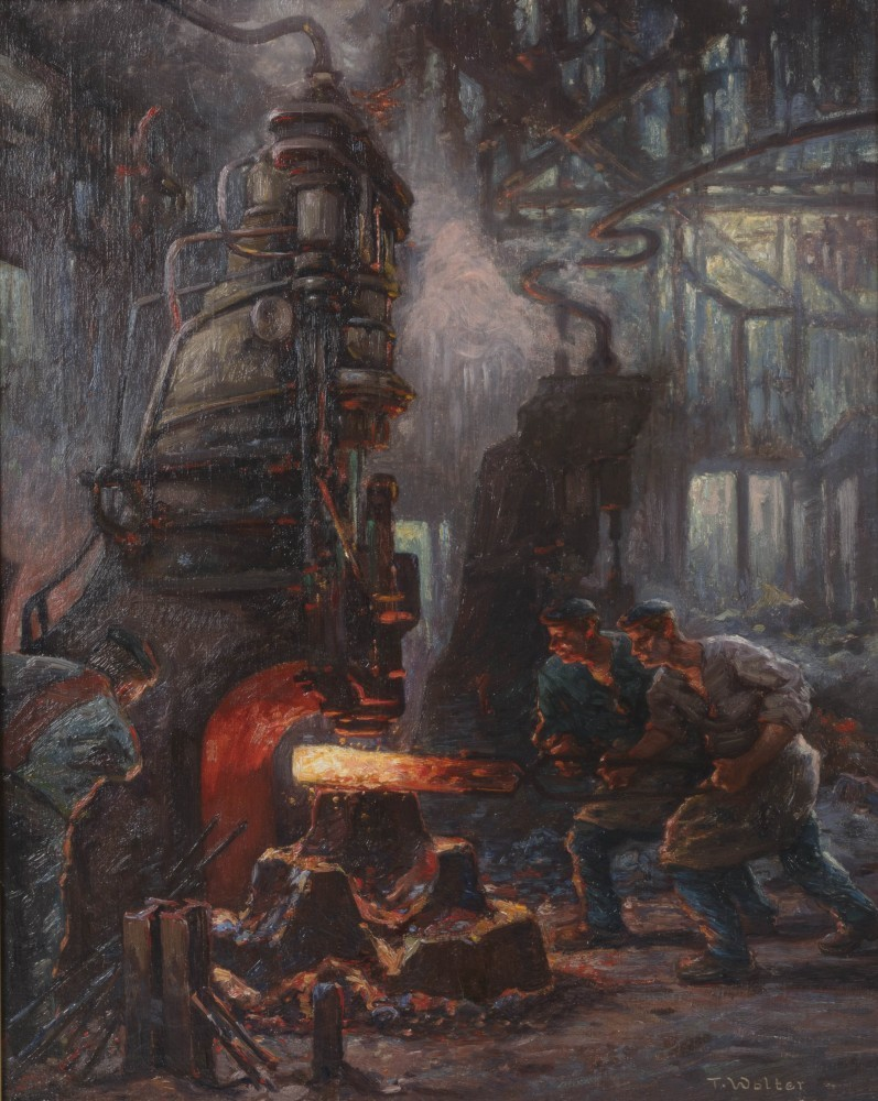 Painting of factory workers by Toni Anton Wolter